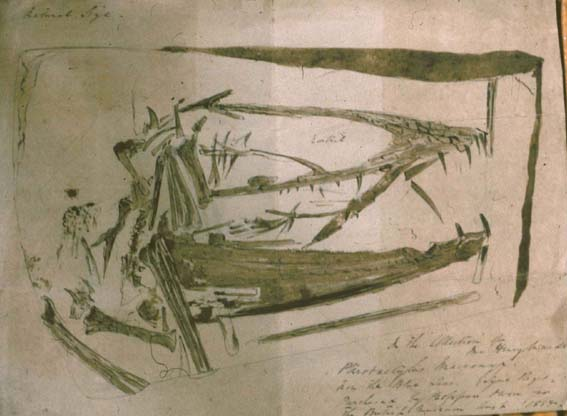 Specimen of Dimorphodon macronyx, BMNH R 1035, found by Mary Anning, drawn with belemnite ink, Philpot Museum, Lyme Regis